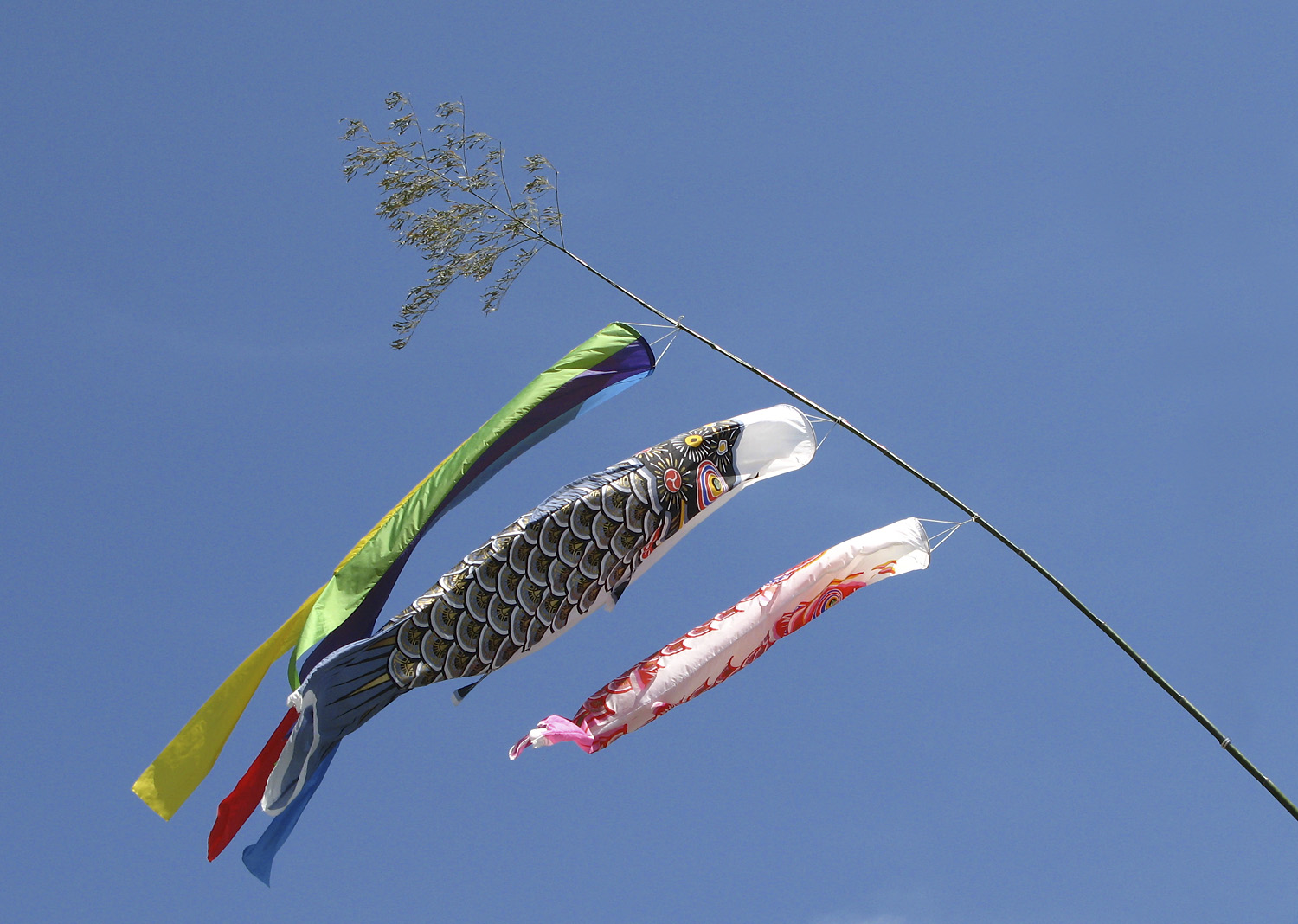 Koinobori for Children's Day in Nagasaki, Japan